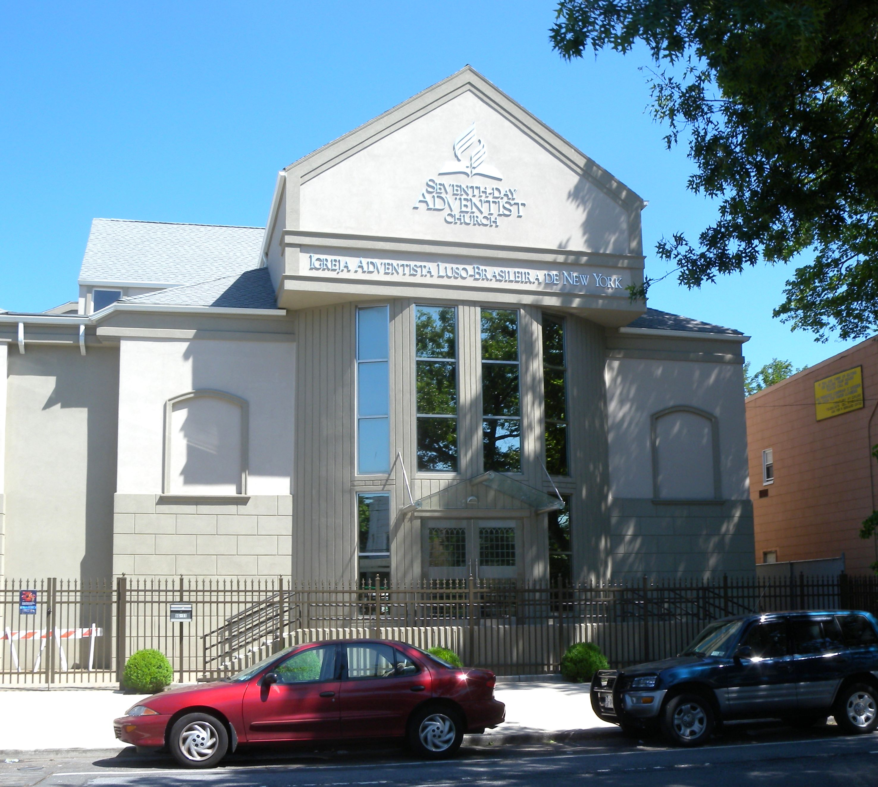 Looking north across 34th Avenue at Brazilian church on a sunny morning.